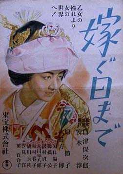 Movie poster for 1940 Japanese movie (嫁ぐ日まで Totsugu hi made).